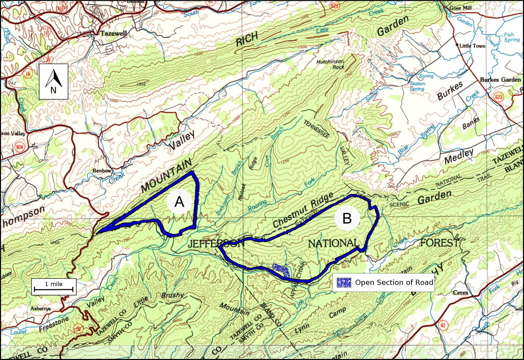 Boundary of the Beartown Mountain wildland in the Jefferson National Forest as identified by the Wilderness Society